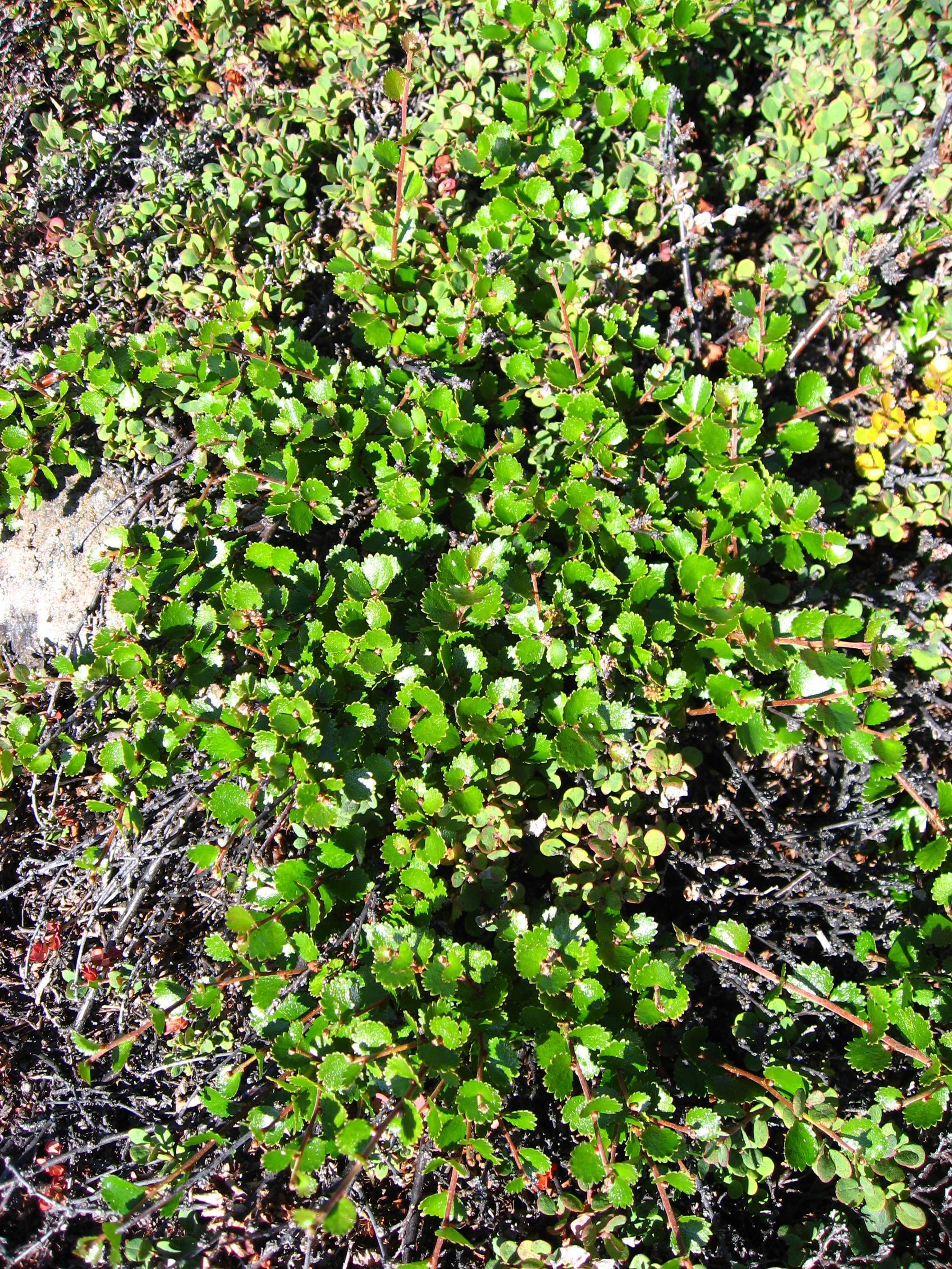 Betula nana photographed on a hike north of the village Upernavik Kujalleq and north-east of the mountain Kingigtoq, Greenland.